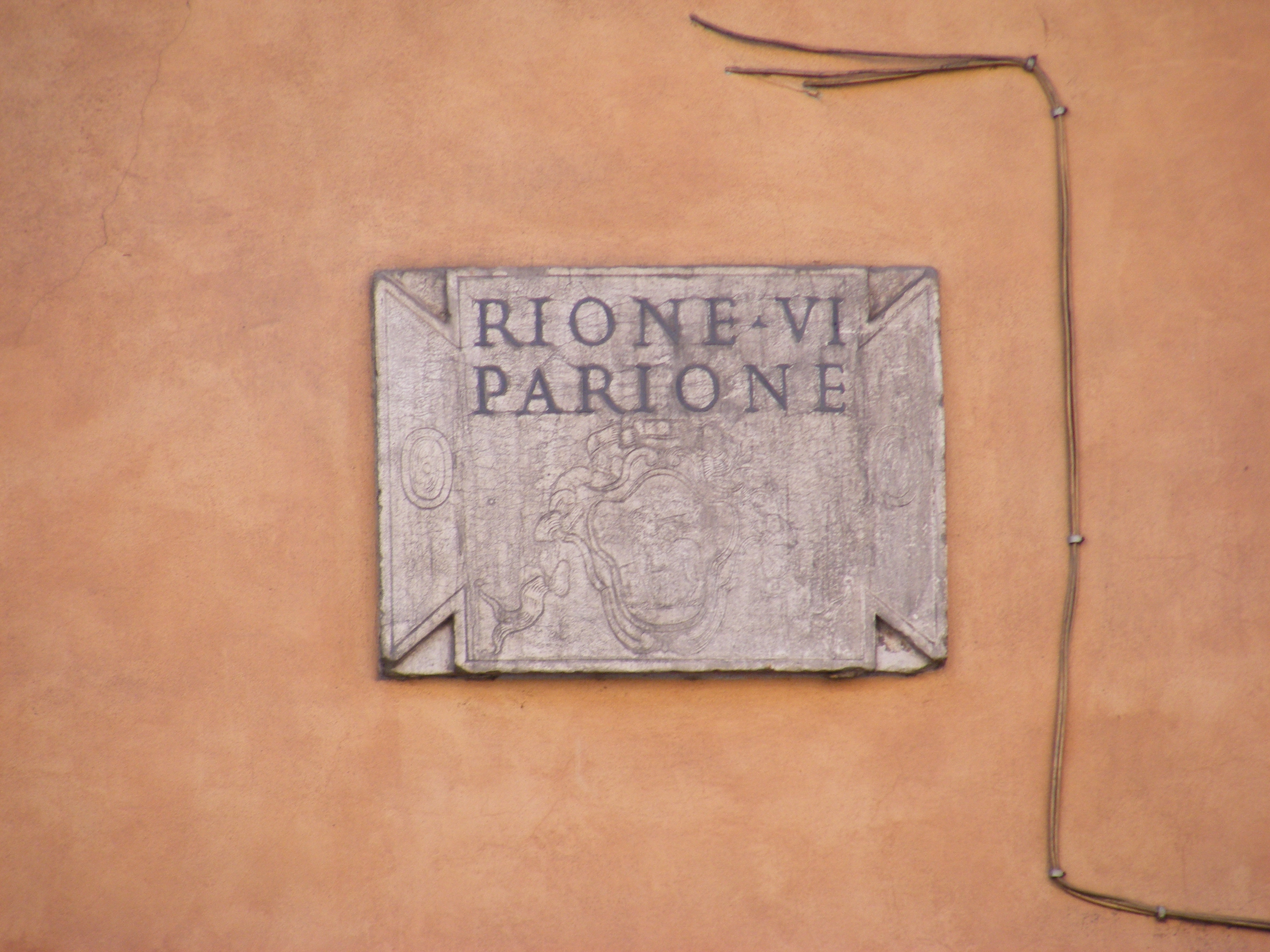 Rione VI - Parione - Old sign.